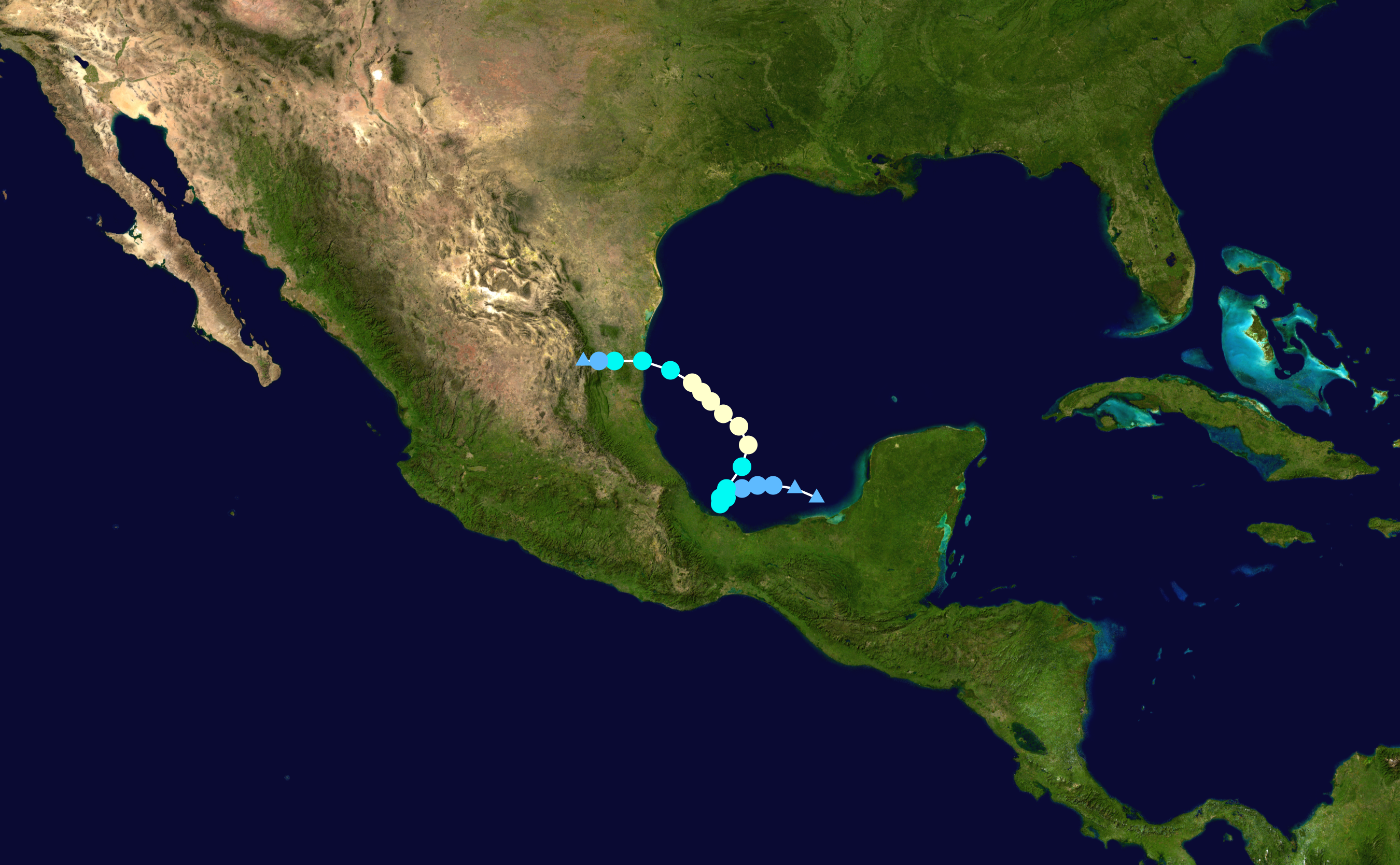 Track map of Hurricane Ingrid of the 2013 Atlantic hurricane season. The points show the location of the storm at 6-hour intervals. The colour represents the storm's maximum sustained wind speeds as classified in the Saffir–Simpson scale (see below), and the shape of the data points represent the nature of the storm, according to the legend below. Saffir–Simpson scale Tropical depression≤38 mph≤62 km/h Category 3111–129 mph178–208 km/h Tropical storm39–73 mph63–118 km/h Category 4130–156 mph209–251 km/h Category 174–95 mph119–153 km/h Category 5≥157 mph≥252 km/h Category 296–110 mph154–177 km/h Unknown Storm type Tropical cyclone Subtropical cyclone Extratropical cyclone / Remnant low / Tropical disturbance / Monsoon depression